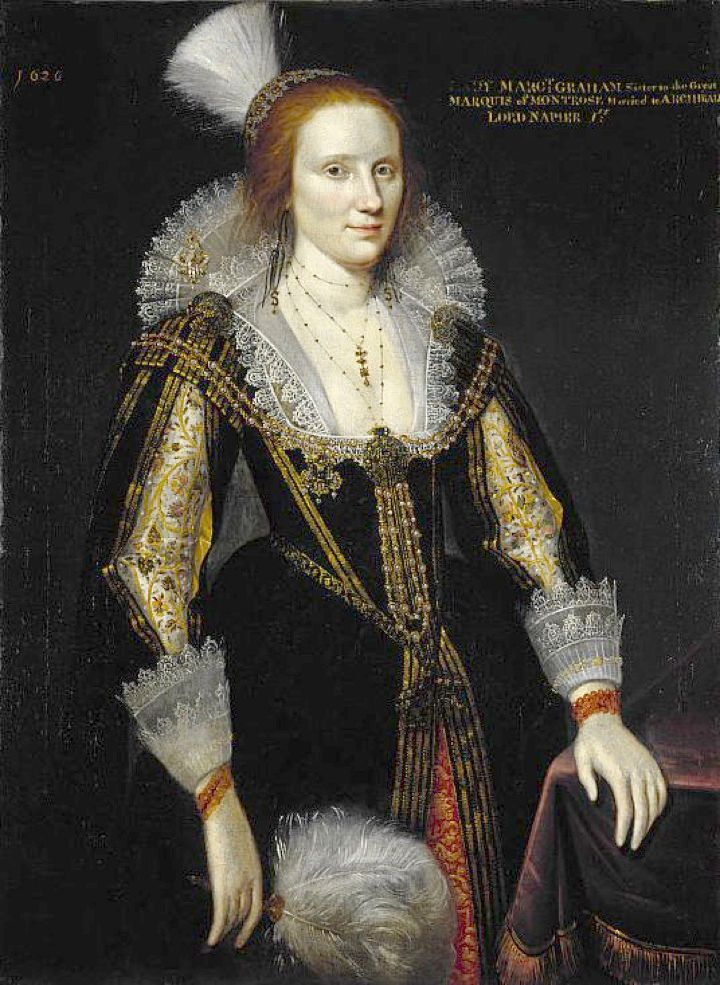 Margaret Graham, Lady Napier, d. c 1626. Sister of 1st Marquess of Montrose and wife of Archibald Napier, 1st Lord Napier